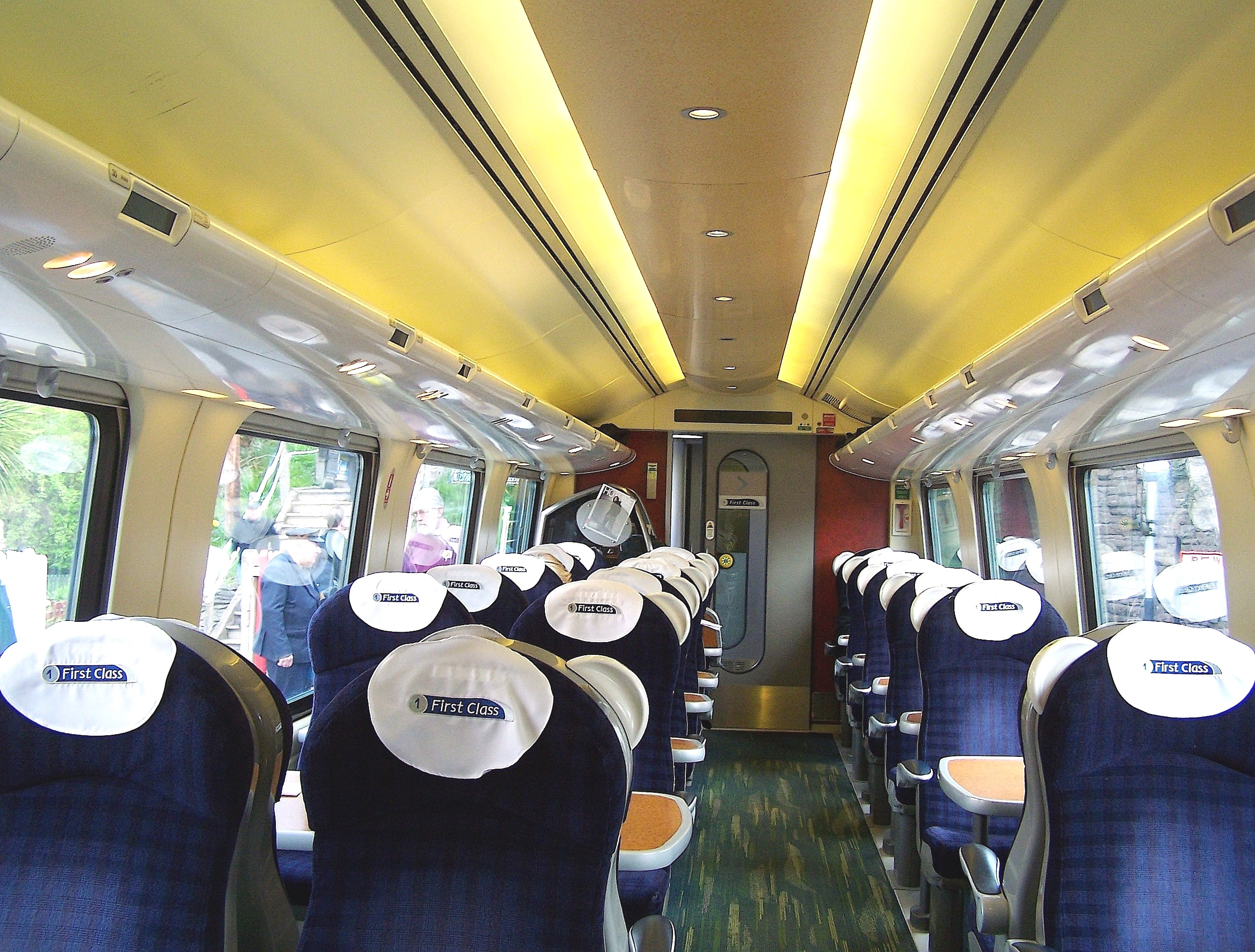 The interior of First Class from a Class 220